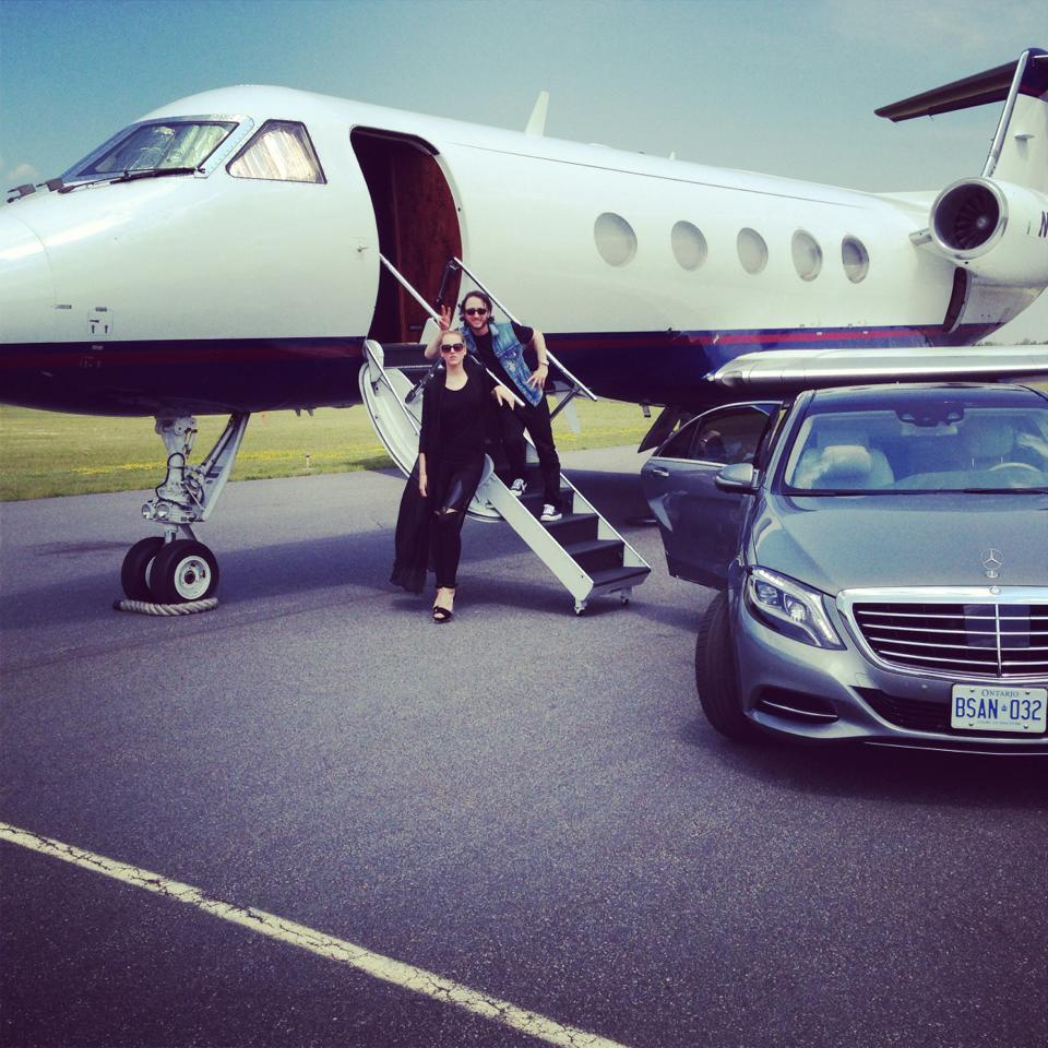 On Location